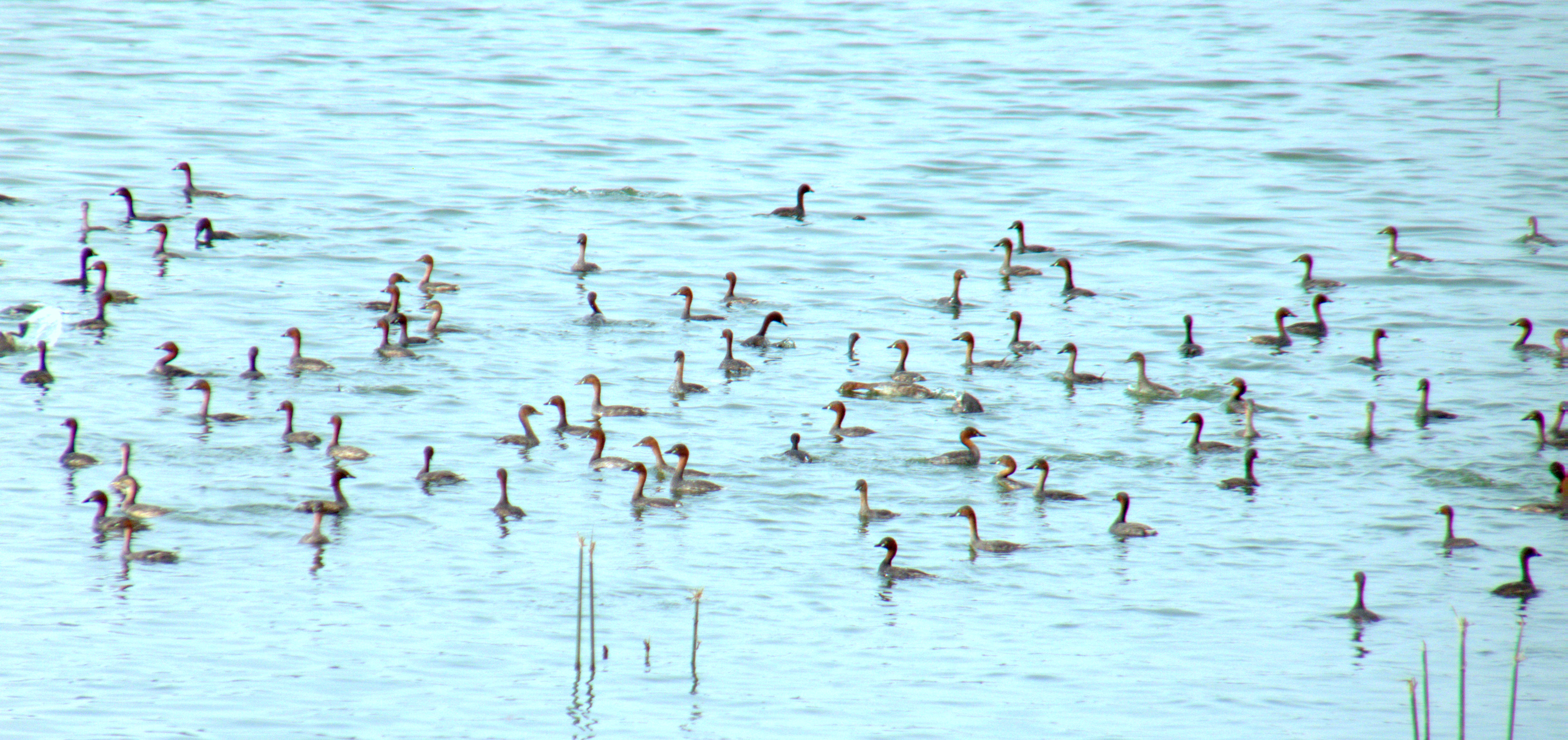 Little Grebes swim together, Singanallur Lake, Coimbatore, Tamil Nadu, India.